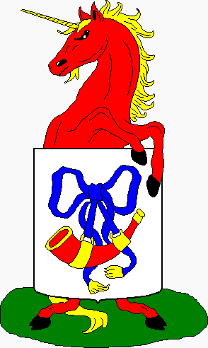 Coat of arms of the town and municipality of Hoorn in the province of North Holland, Netherlands.